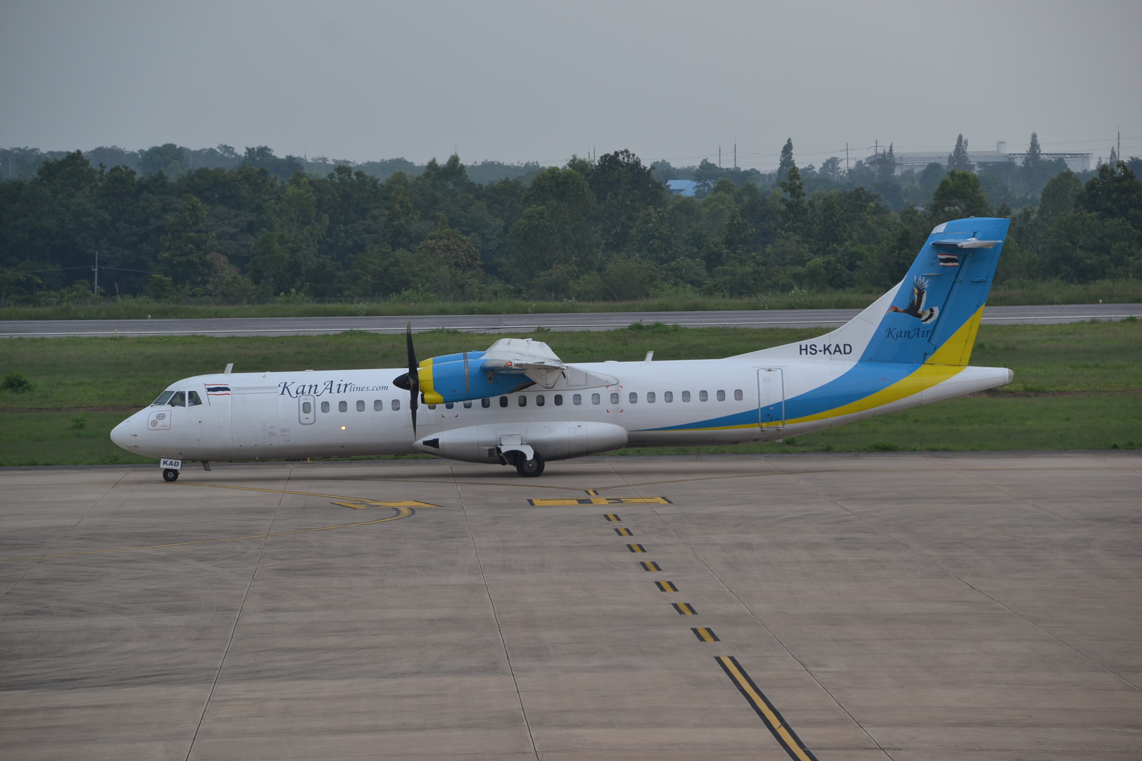 Aerospatiale ATR72/ of Kan Air at Khon Kaen-KKC, 02/10/15.